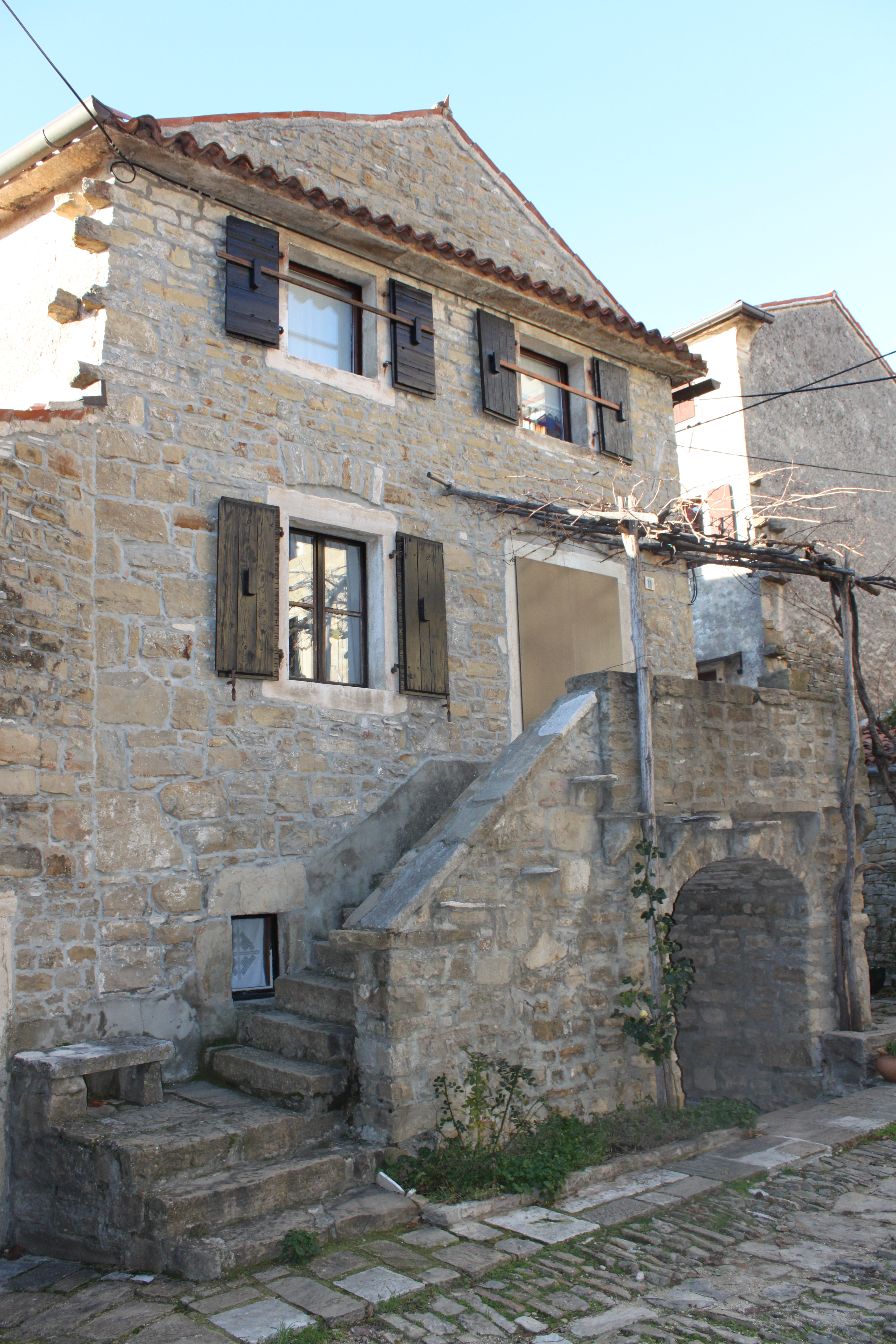 Traditional house with stone terrace "baladur" in Istria (Croatia).